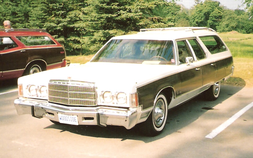 1977 Chrysler Town & Country station wagon I photographed at the third annual International Station Wagon Club convention in Niagara Falls, Ontario, Canada in June 2006.